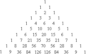 Made by Romero Schmidtke